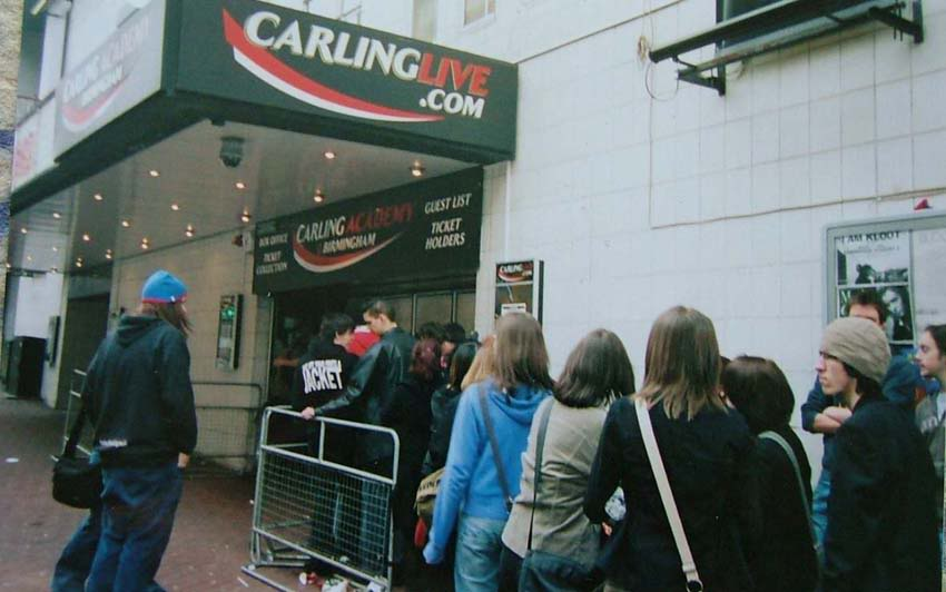 The former building of the Birmingham Academy on Dale End, before the venue re-located. This building later was purchased and briefly became the Birmingham Ballroom before closure in January 2013. Taken on the 31st March 2005, before Feeder played as part of their Pushing the Senses tour.